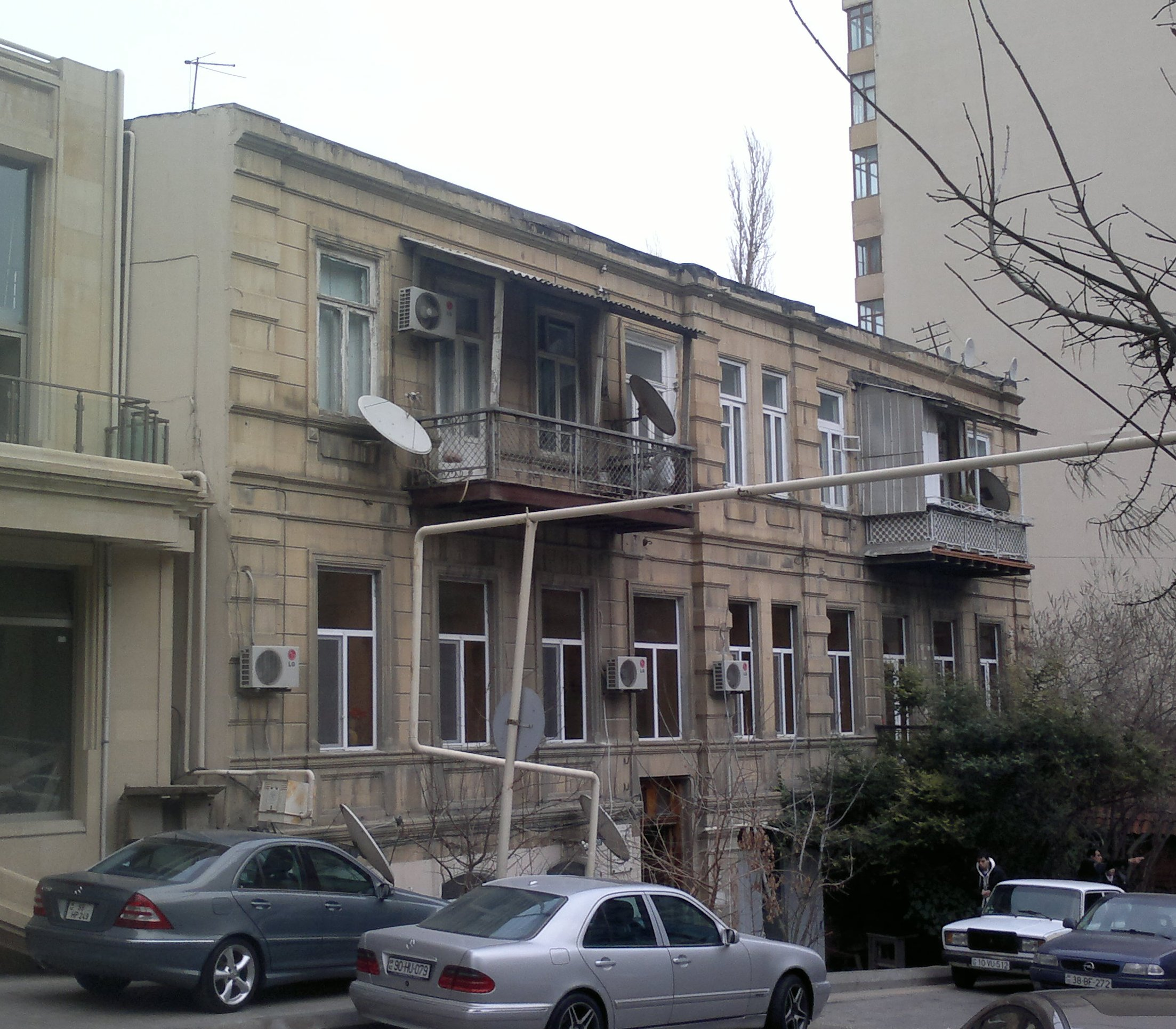 Building on Bunyad Sardarov Street 20. Yusif Vazir Chamanzaminli lived here till 1943. Built in 1893.